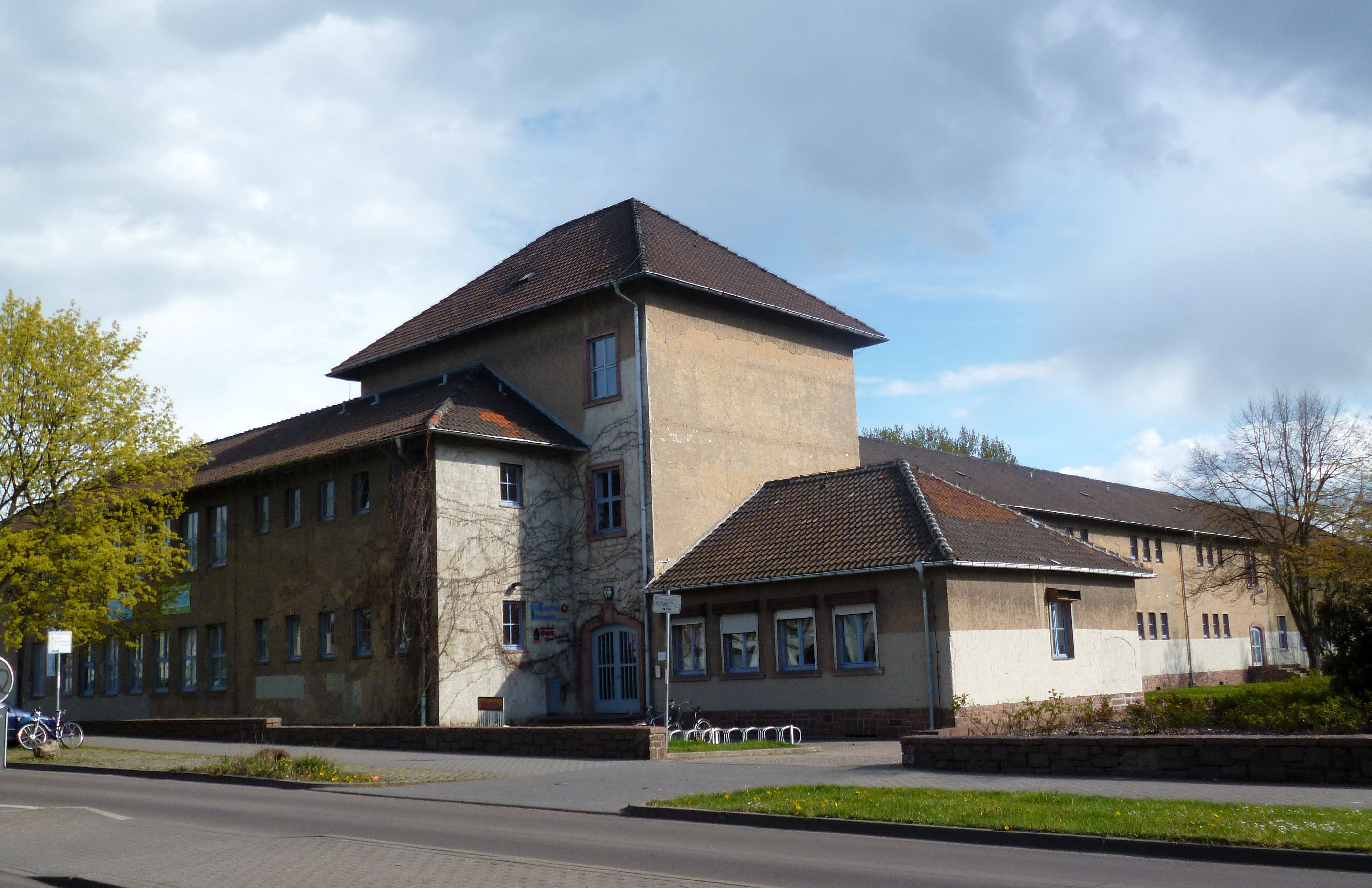 School Diesterwegschule II, use by school Freie Schule Riesenklein until summer 2019, built in 1938/1939, architect: Wilhelm Jost, Diesterwegstrasse No. 37, Halle (Saale)